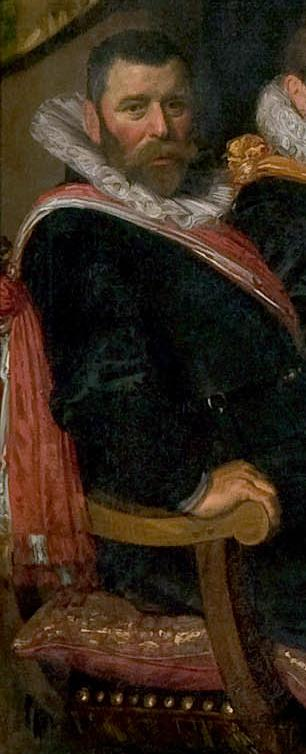 Portrait of Johan van Napels in The Banquet of the officers of the Saint George Civic guard in Haarlem in 1616, detail